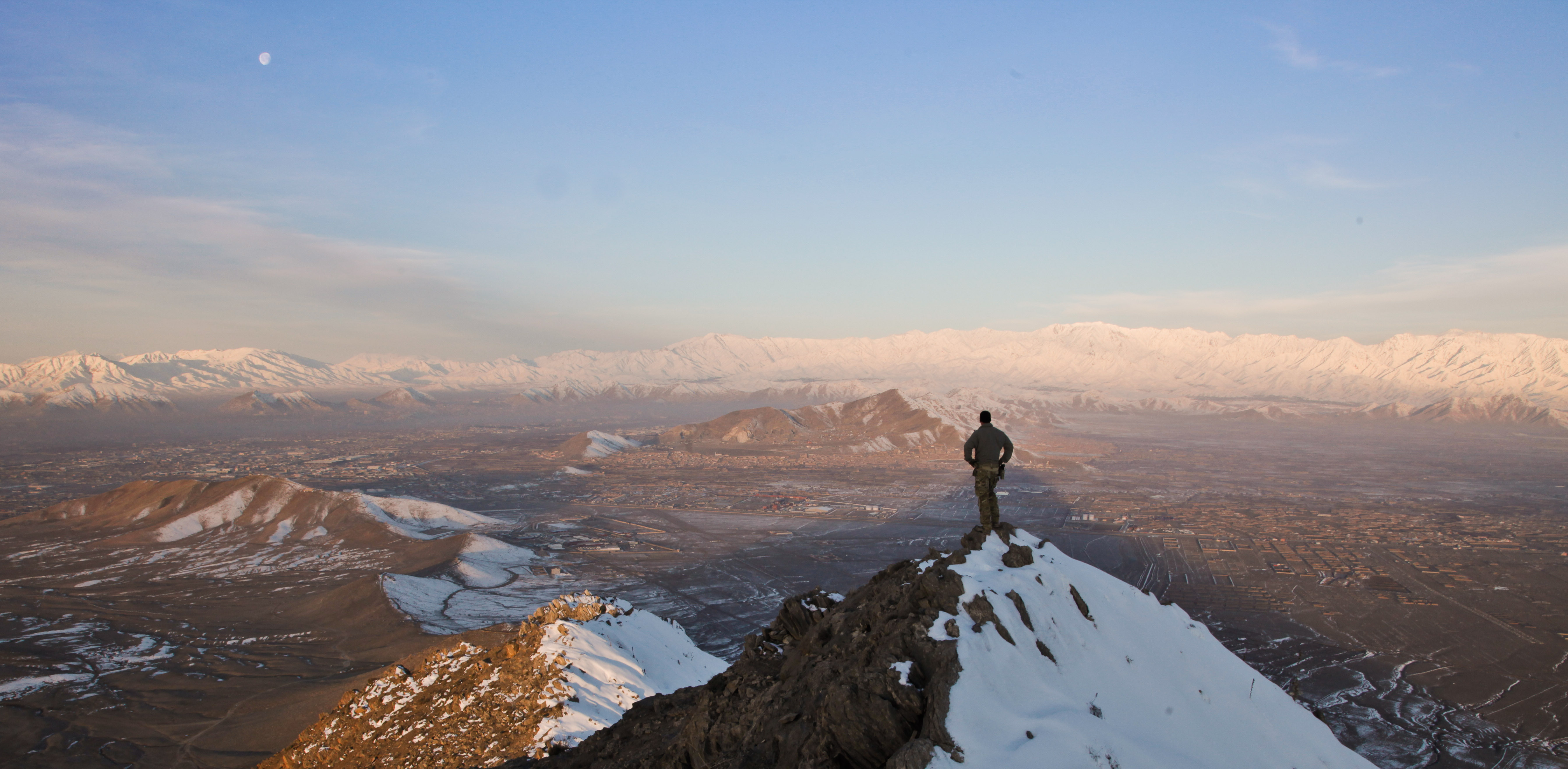 A coalition force member stands on top of a hill watching a snow-covered mountain range in Kabul province, Afghanistan, March 1, 2013. (U.S. Army photo by Sgt. Matthew Freire) A coalition force member stands on top of a hill watching a snow-covered mountain range in Kabul province, Afghanistan, March 1, 2013. (U.S. Army photo by Sgt. Matthew Freire) Photo by Sgt. Matthew Freire Date Taken:02.28.2013 Location:AF Read more